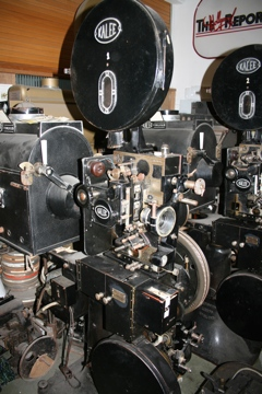 Early 35mm professional projector